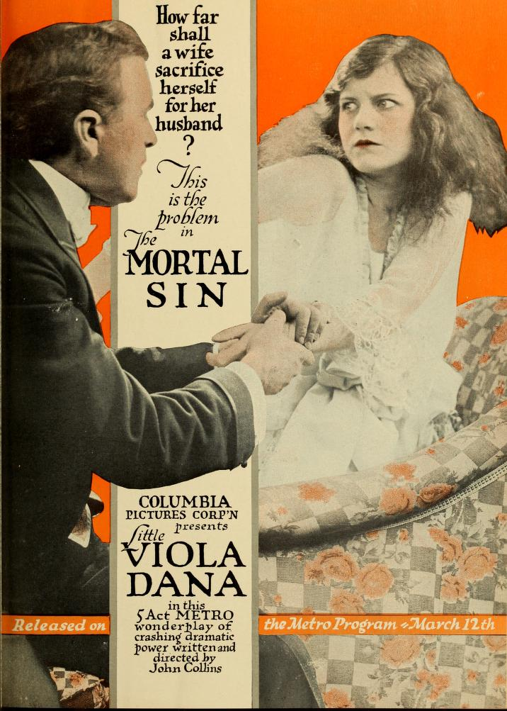 Advertisement in Moving Picture World for the American film The Mortal Sin (1917).